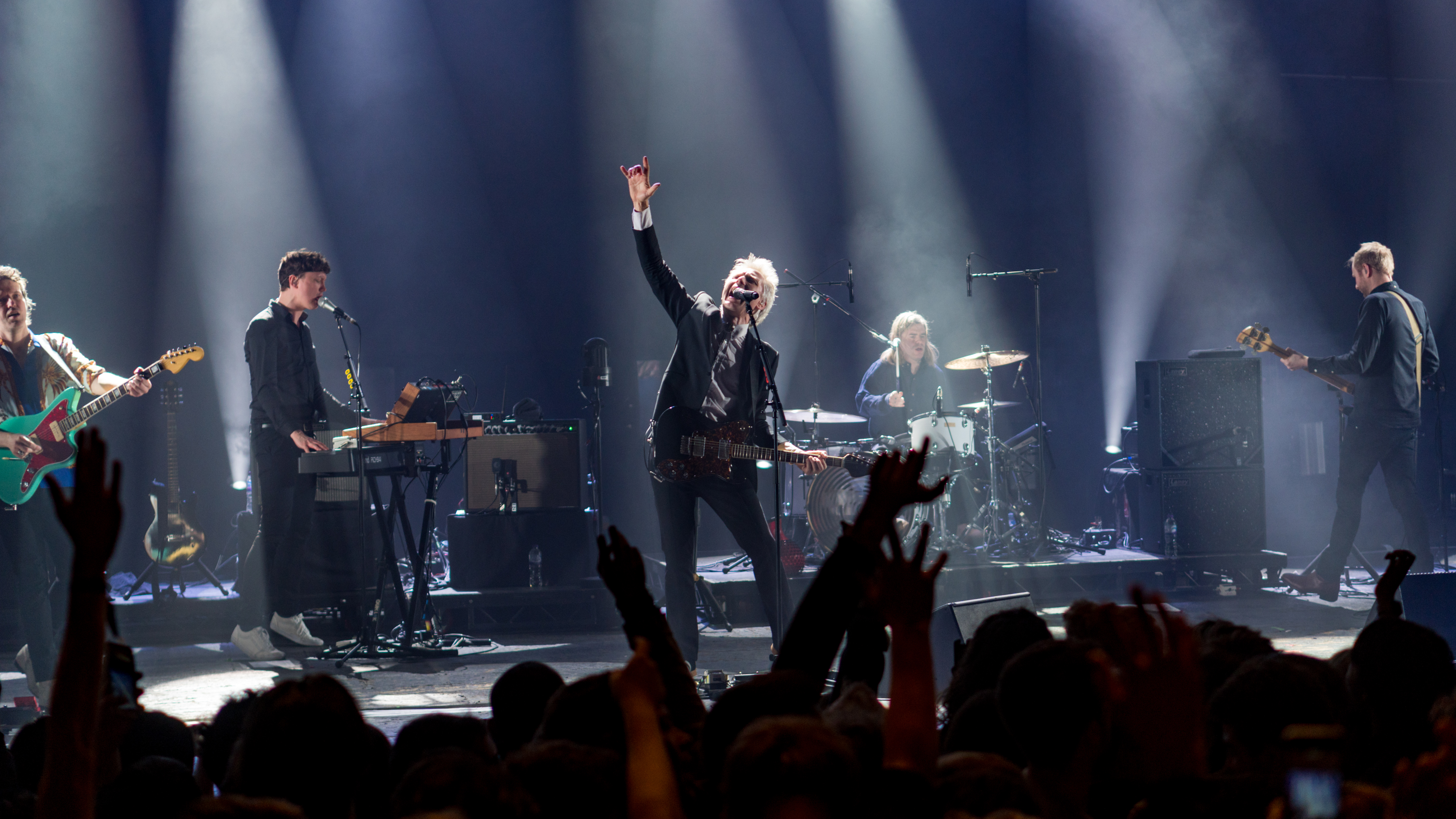 FranzFBrixton240218-38